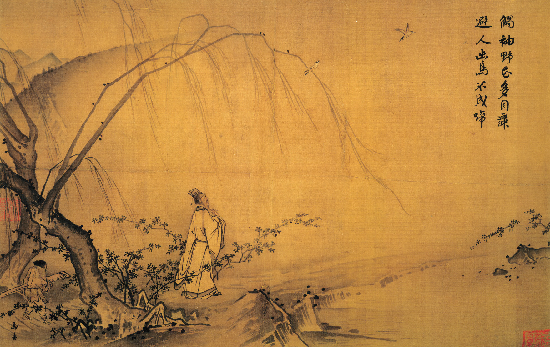 Walking on Path in Spring by Ma Yuan (马远 c.1190 - 1279年）), a Chinese painter of the Song Dynasty.